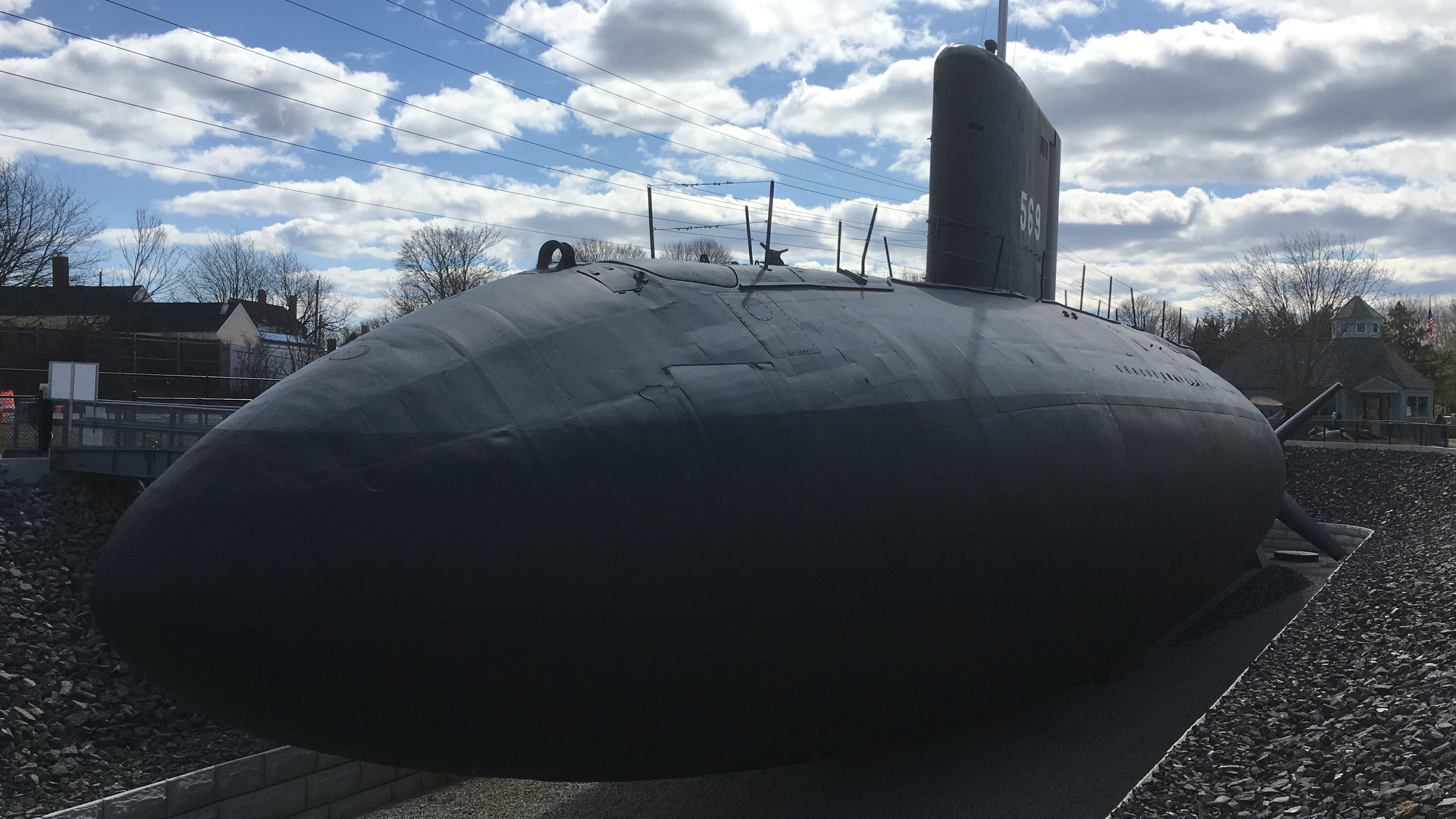 USS Albacore (AGSS-569) submarine active in the US Navy from 1953 to 1972, used for research. Photographed in April 2018 at its permanent display site in Portsmouth, New Hampshire.